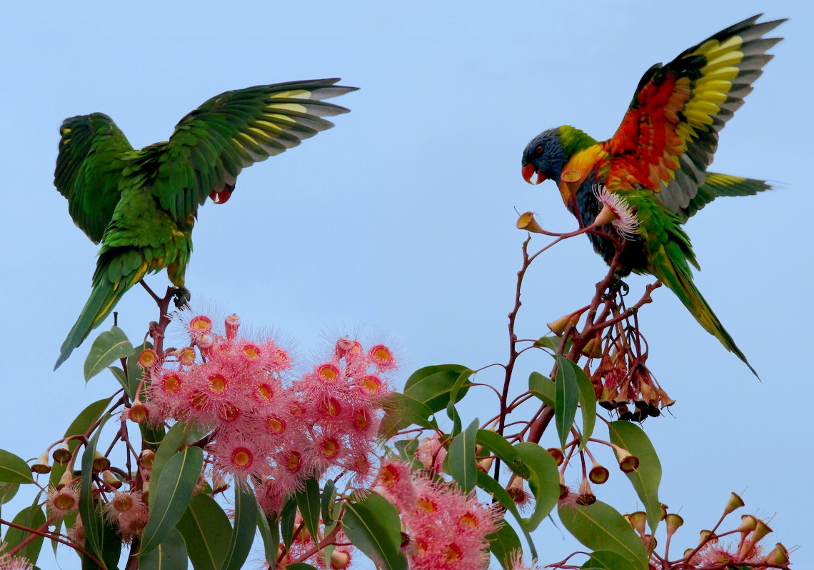 Rainbow Lorikeets Trichoglossus moluccanus feeding in a flowering Corymbia ficifolia 'Summer Beauty' (cultivar). Photographed in suburban Brisbane, Australia.